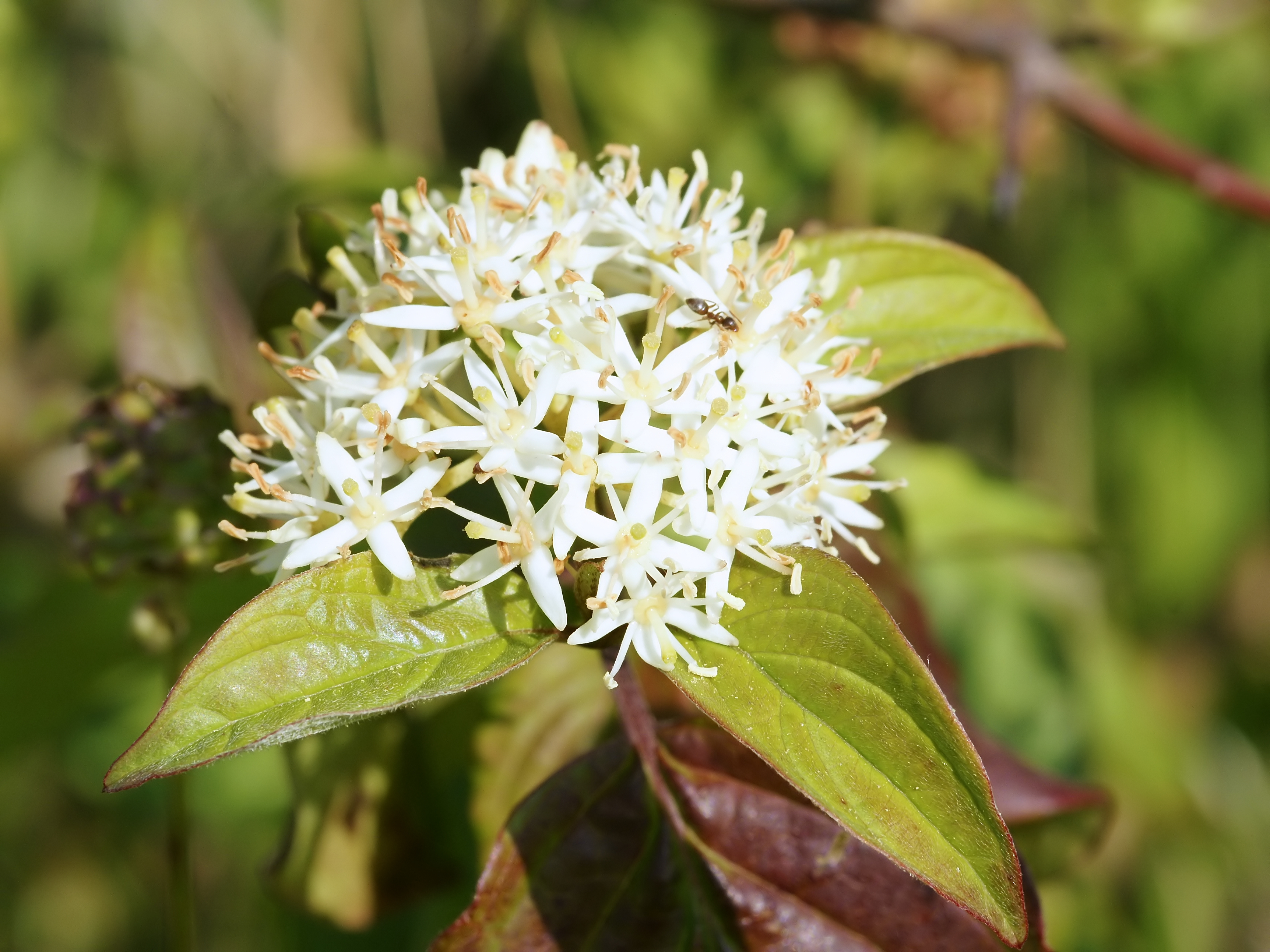 Bloodtwig dogwood close to Nismes, Belgium